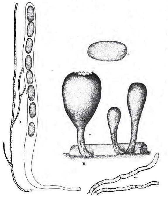 Urnula craterium: a) three stages in development of cup b) ascus and paraphyses c) hairs from cup d) one spore